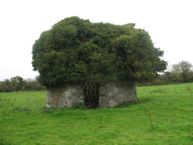 Drombany Dovecote This ruin is found just behind the B&B "Castle View". But the easiest way to get to this octagonal dovecote is to make a path southeast from the road. You will have to cross 2 fields to get to the ruin. Inside the dovecote there is nothing except the pigeon roosts which are built into all the walls.